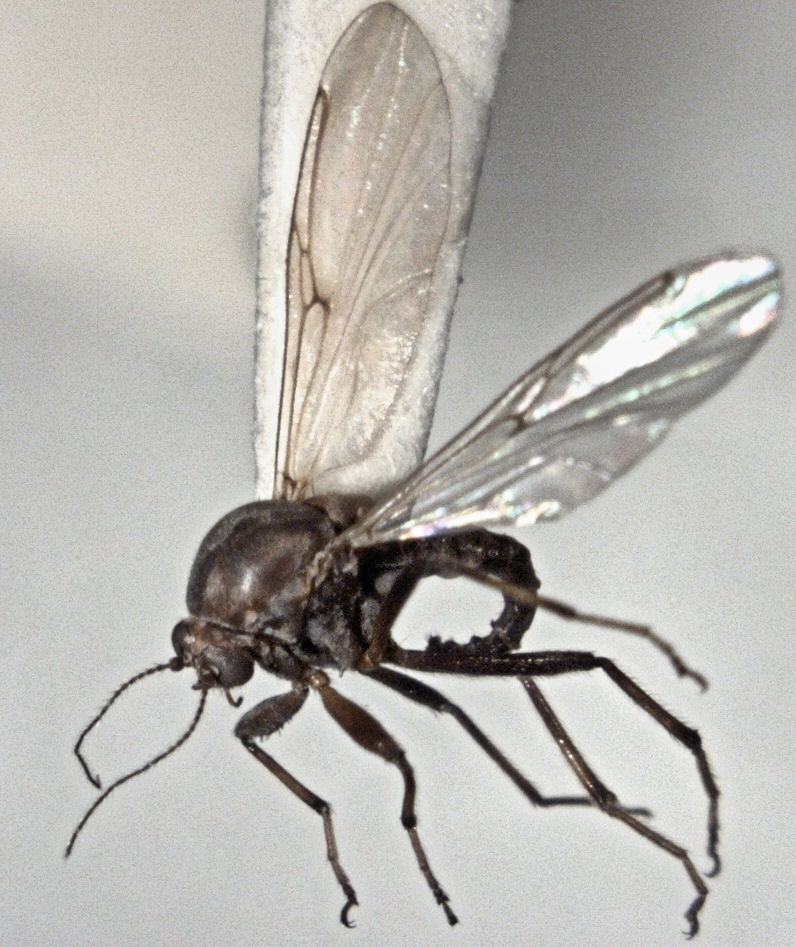 adult female Palpomyia cantuaris, or closely allied new species